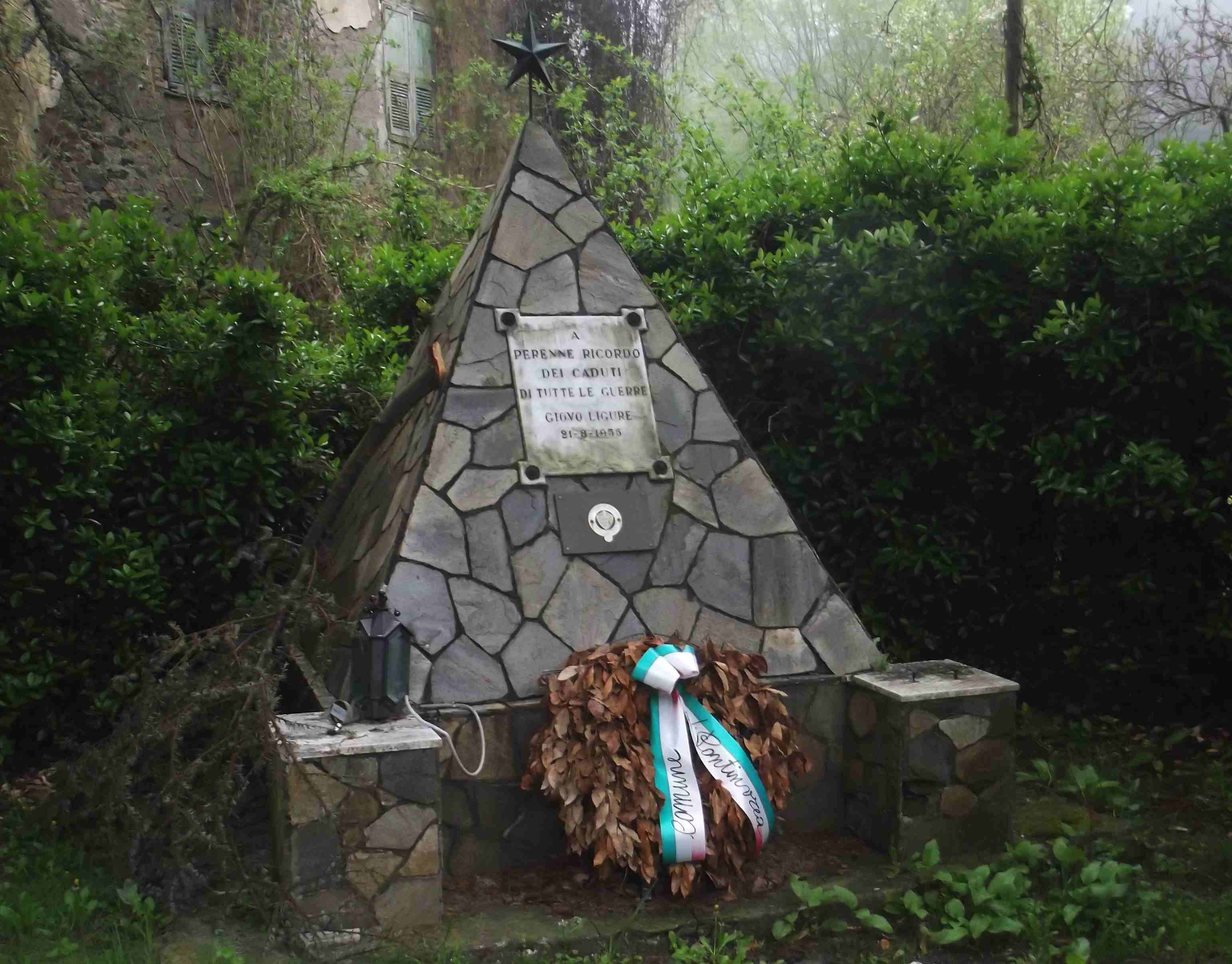 Colle del Giovo (SV, Italy): war memorial